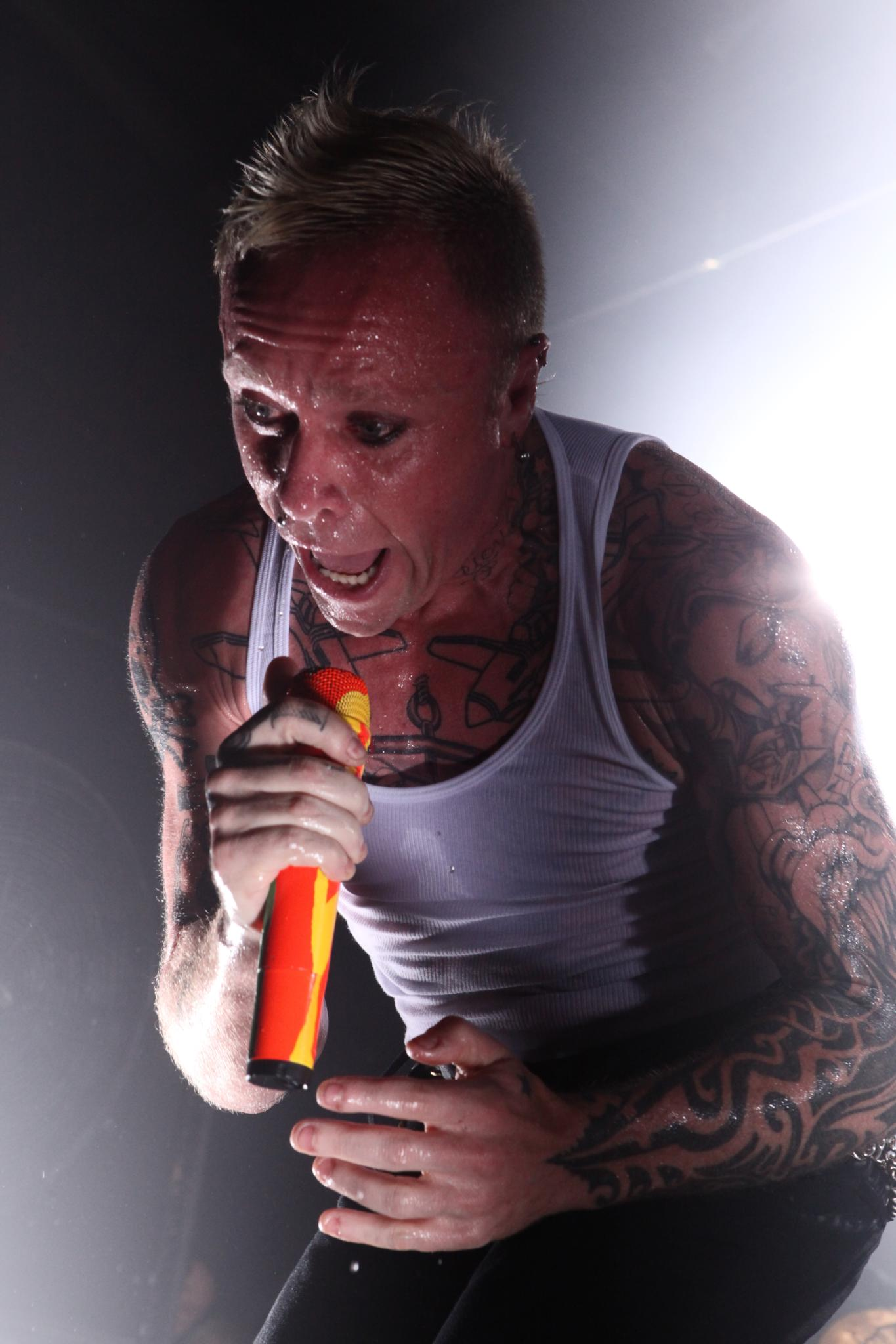 Keith Flint from The Prodigy on concert in Palace Theatre in Melbourne, Australia on 28 January 2009.